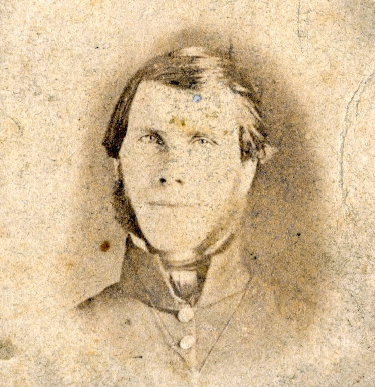 William Archibald Forbes, William A. Forbes, VMI Alumnus, ca. 1855. Note: A member of the VMI Class of 1842; a Colonel, 14th Tennessee Infantry, CSA; killed at the Battle of Second Manassas in 1862.